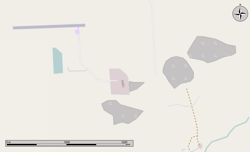 Map of the Victor Diamond Mine and the airfield in Northern Ontario. Note the four areas exploited by the mine. Created in the Marble program using the Open Street Maps overlay.